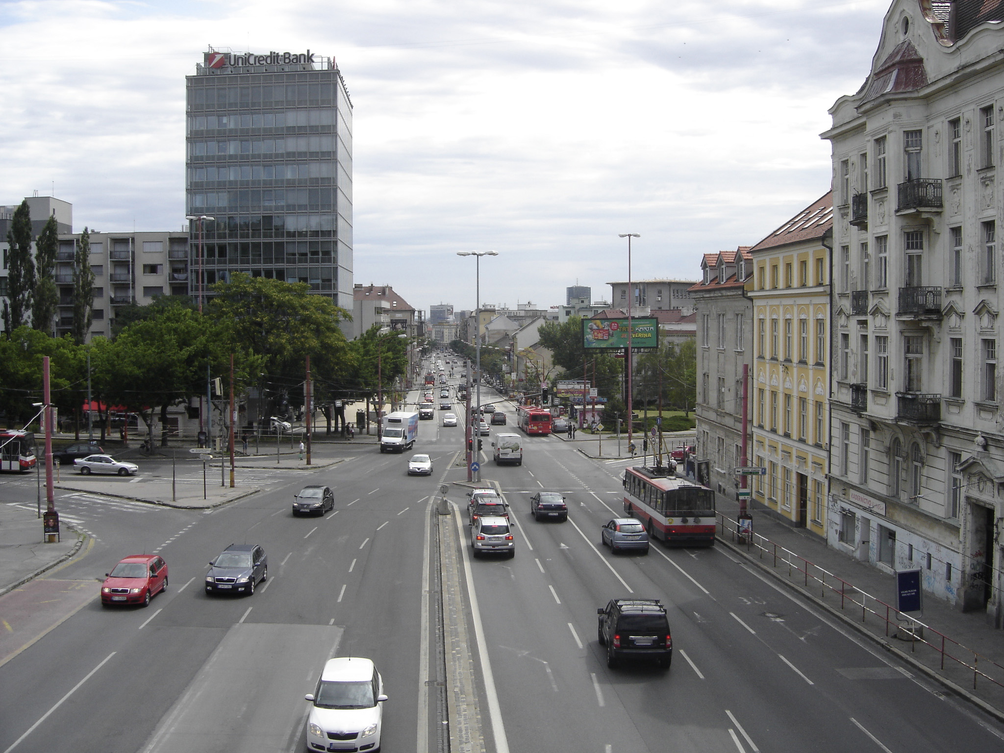 Šancová ul.